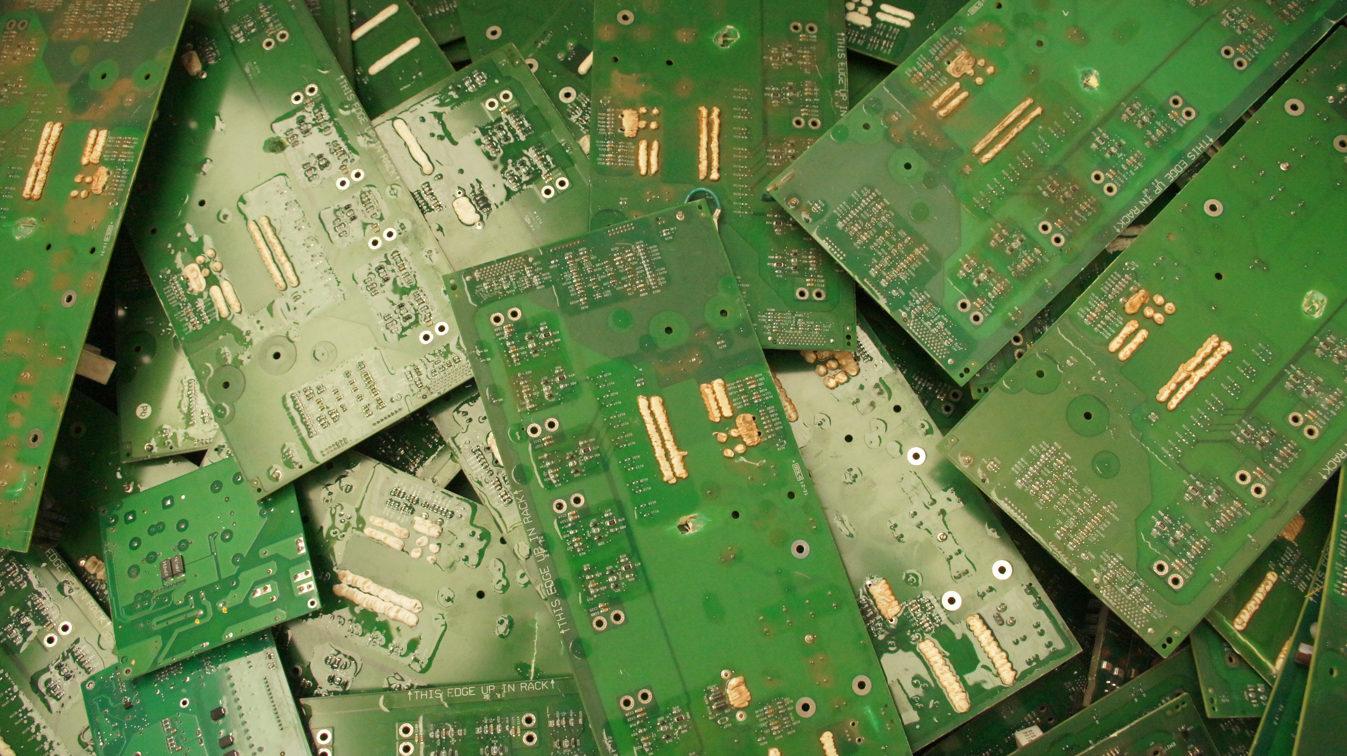 Mother board recycling in Colombia